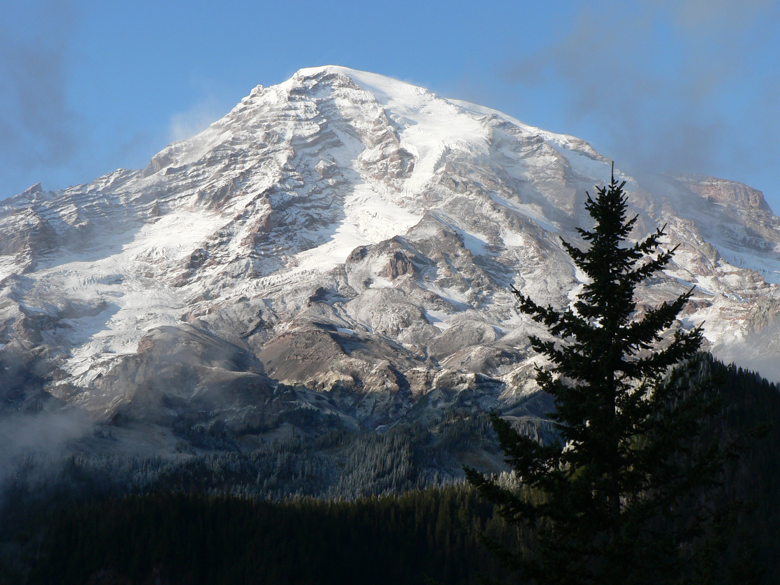 Mt Rainier snow Keywords: mountain; snow